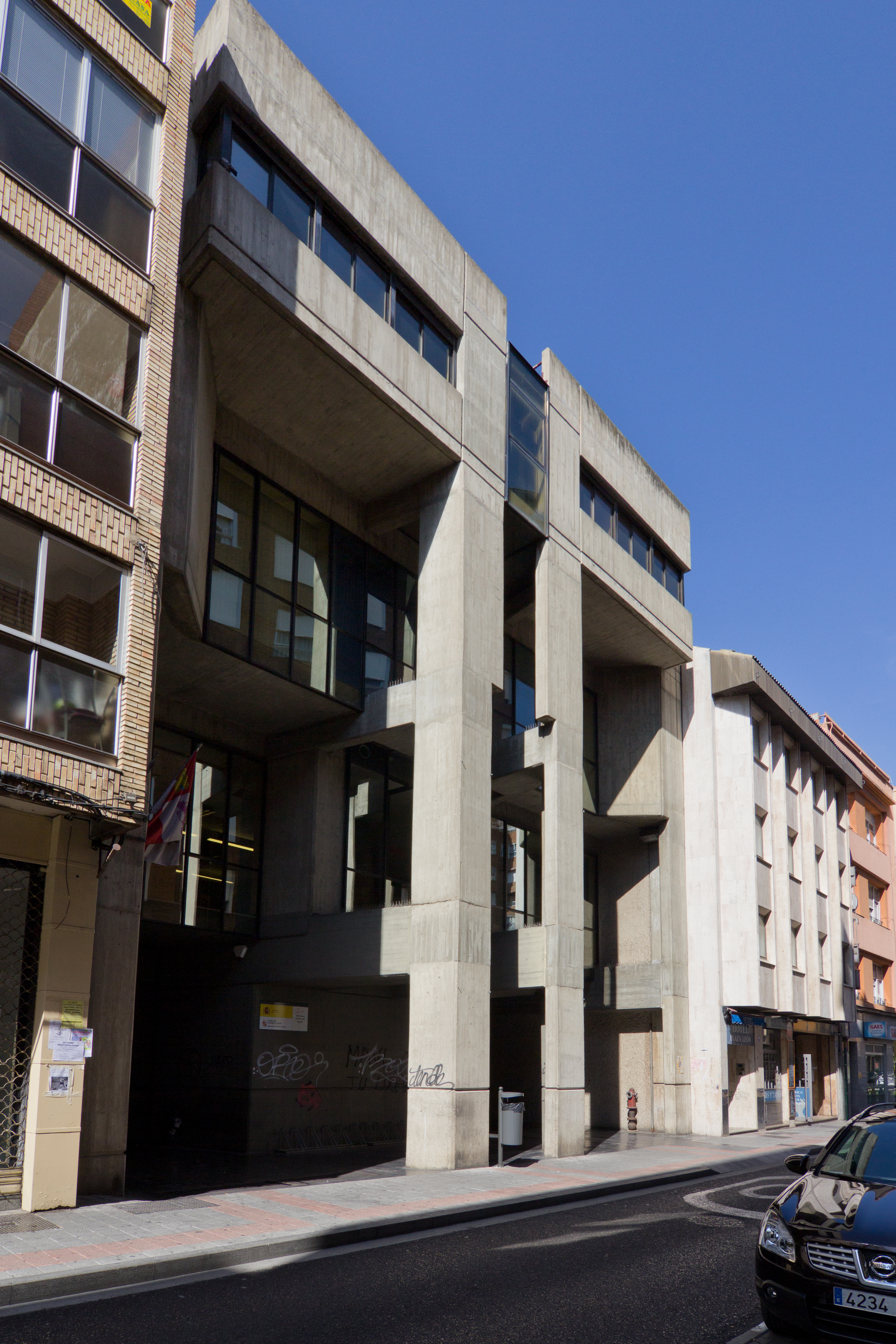 Public Library of the State in Palencia, Castile and León, Spain.